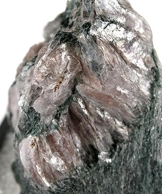 Margarite Locality: Wright Mine, Chester Emery Mines, Chester, Hampden County, Massachusetts, USA (Locality at ) Size: 4.8 x 3.4 x 2.6 cm. A foliated mass of pearlescent pink margarite is emplaced in a vug in schist: a rare calcium, aluminum silicate. Ex. Harold Urish Collection.